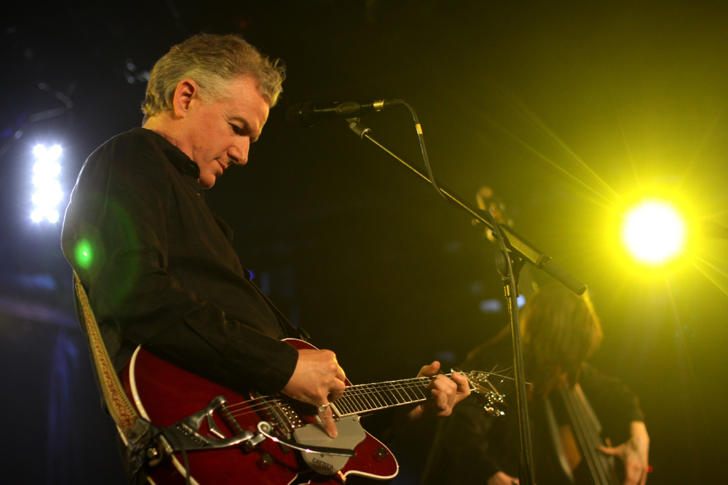 Australian musician Mick Harvey performing live in October 2012.